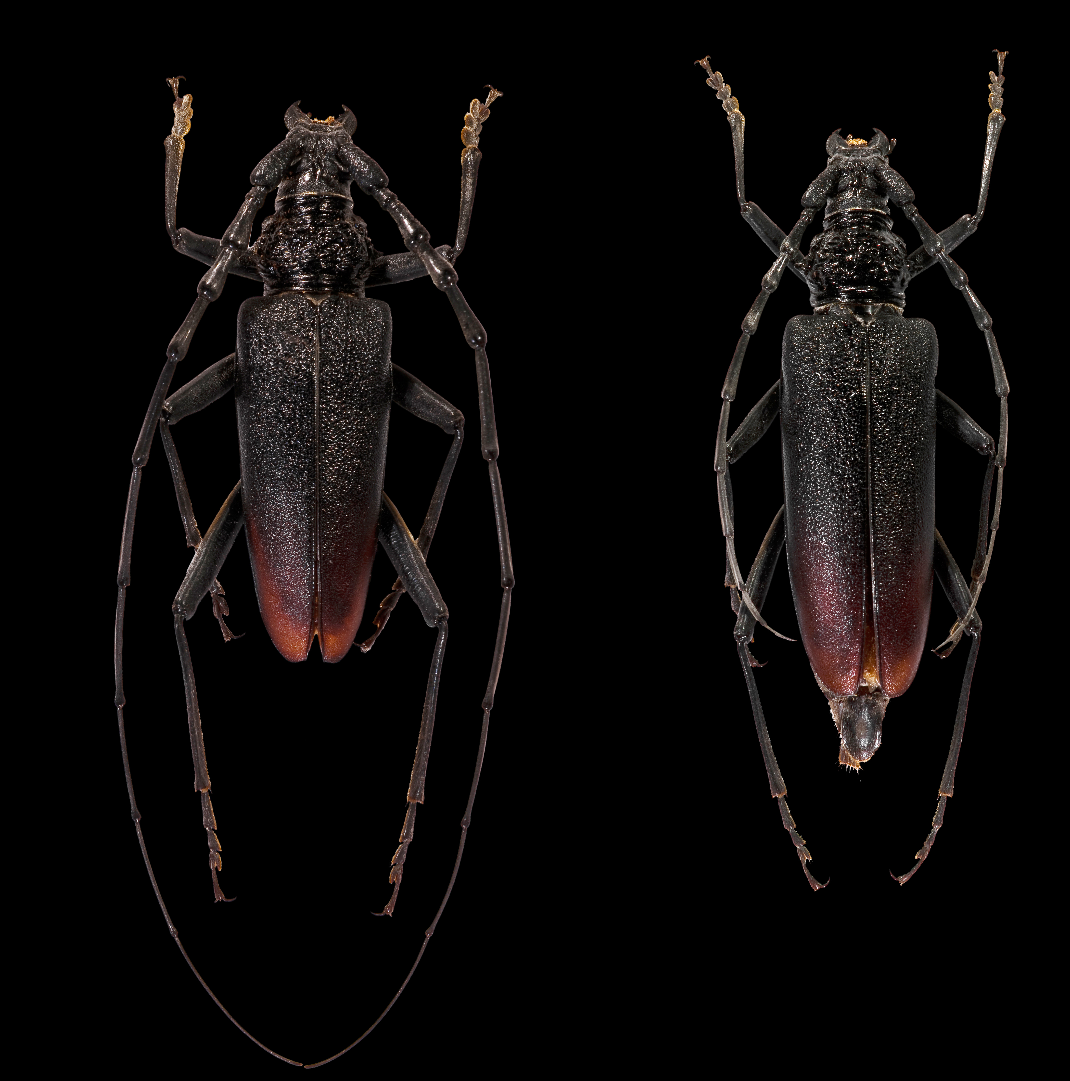 Cerambyx cerdo - Great Capricorn Beetle - Male and female - France - 9,5 and 8 cm